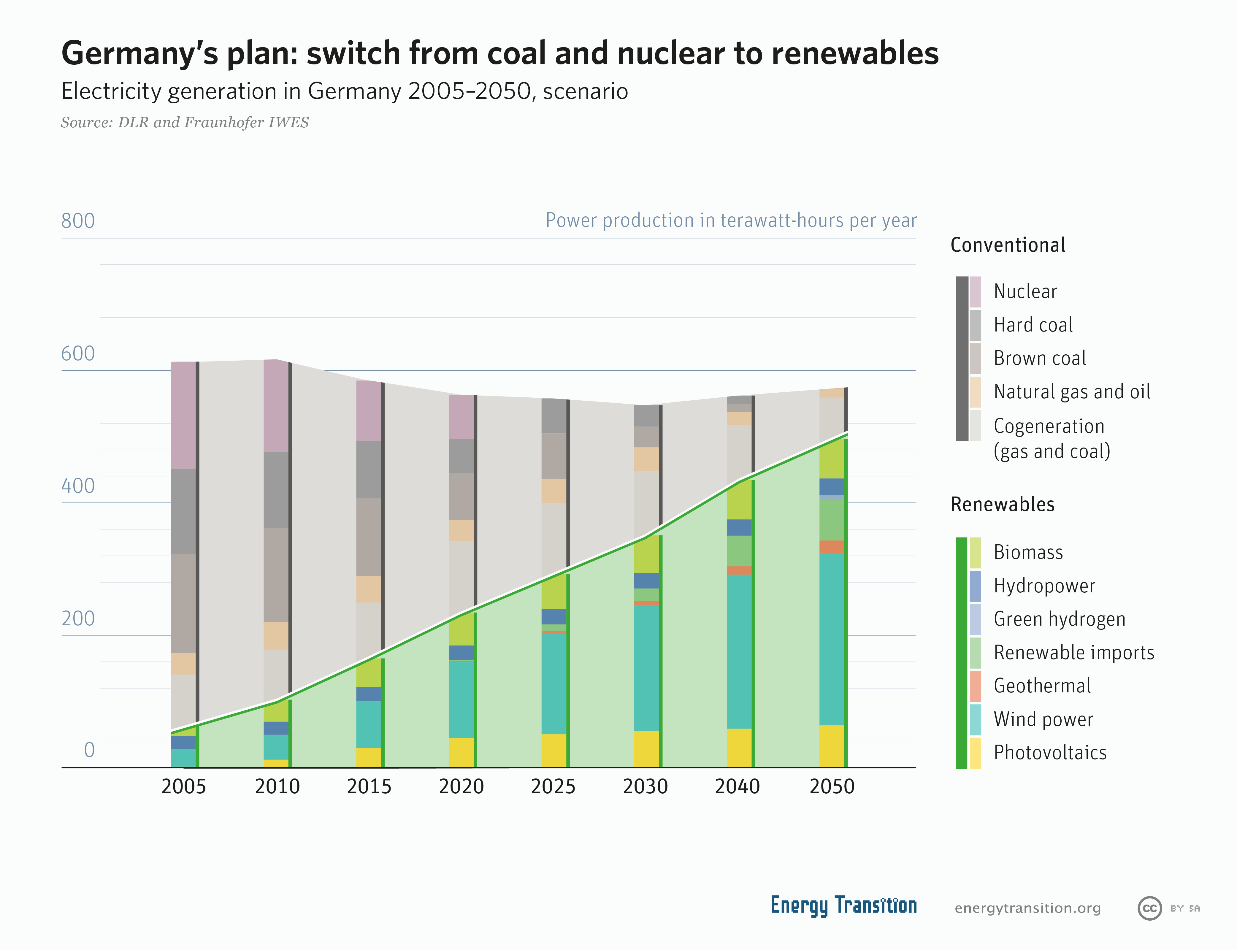 Electricity generation in Germany 2005-2050, scenario